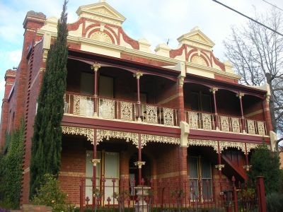 Lascelles Terrace. Errand Street North, Ballarat. Victoria, Australia.